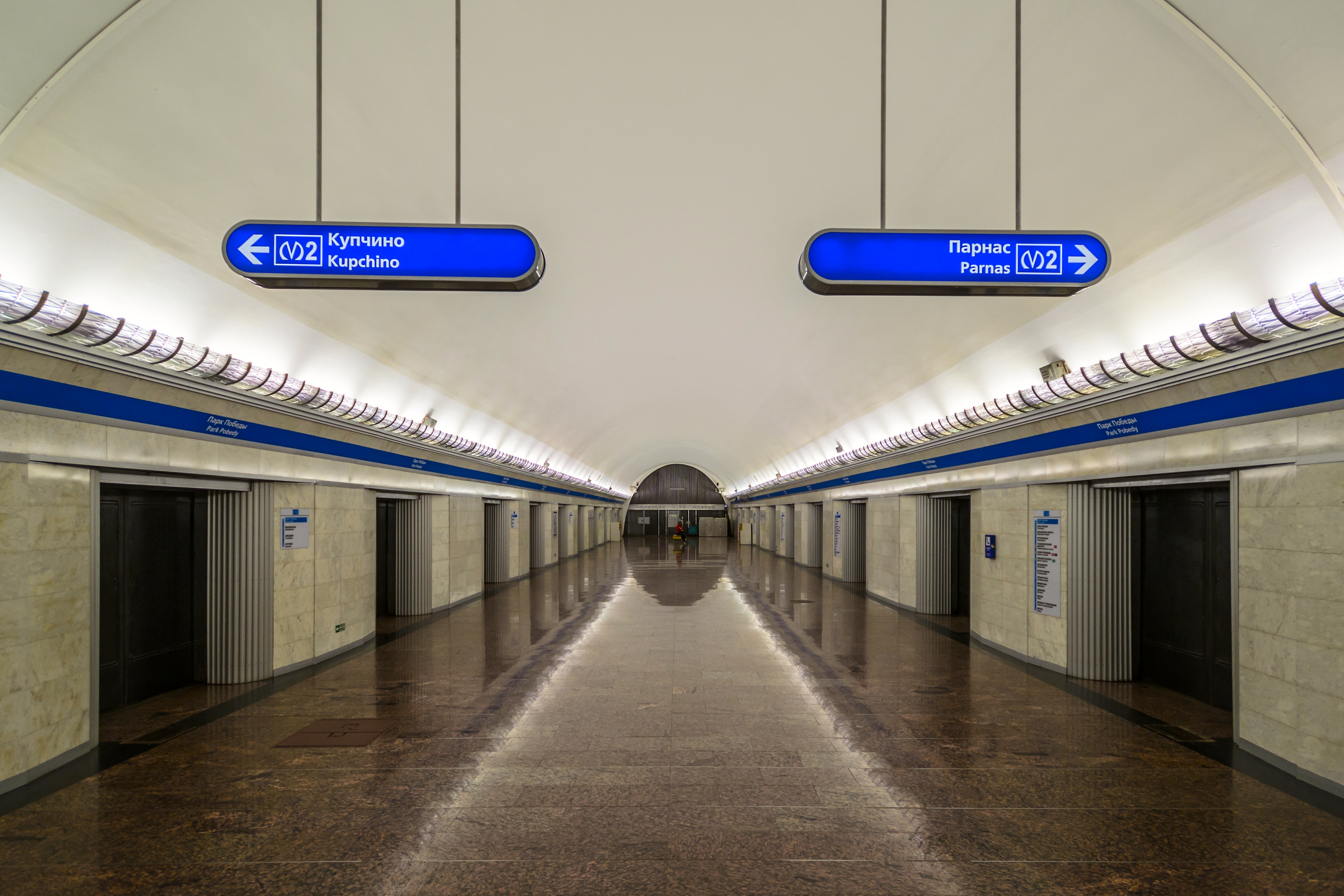 Park Pobedy station of Saint Petersburg Subway